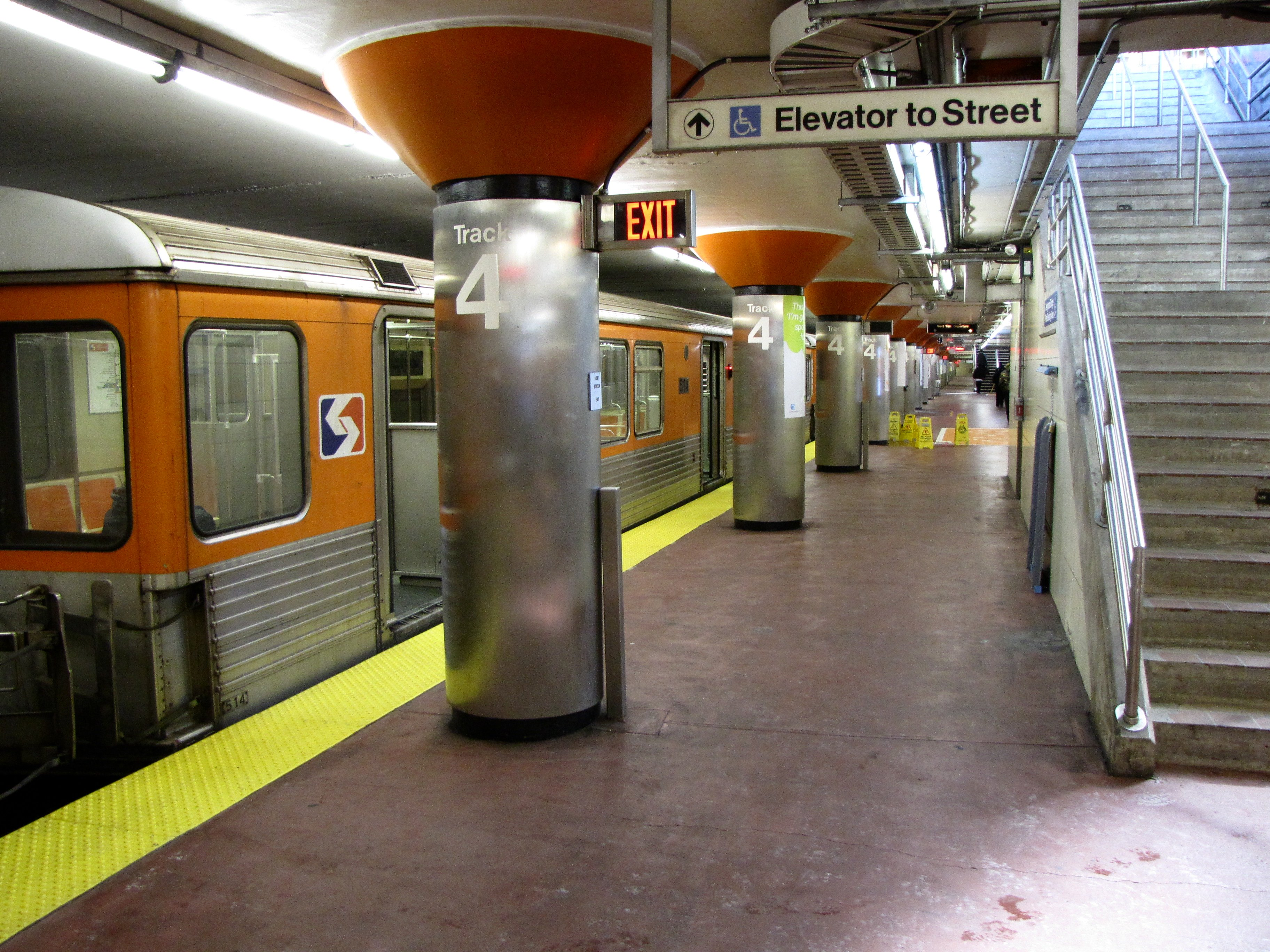 AT&T (formerly Pattison) station on SEPTA's Broad Street Subway in Philadelphia, Pennsylvania.